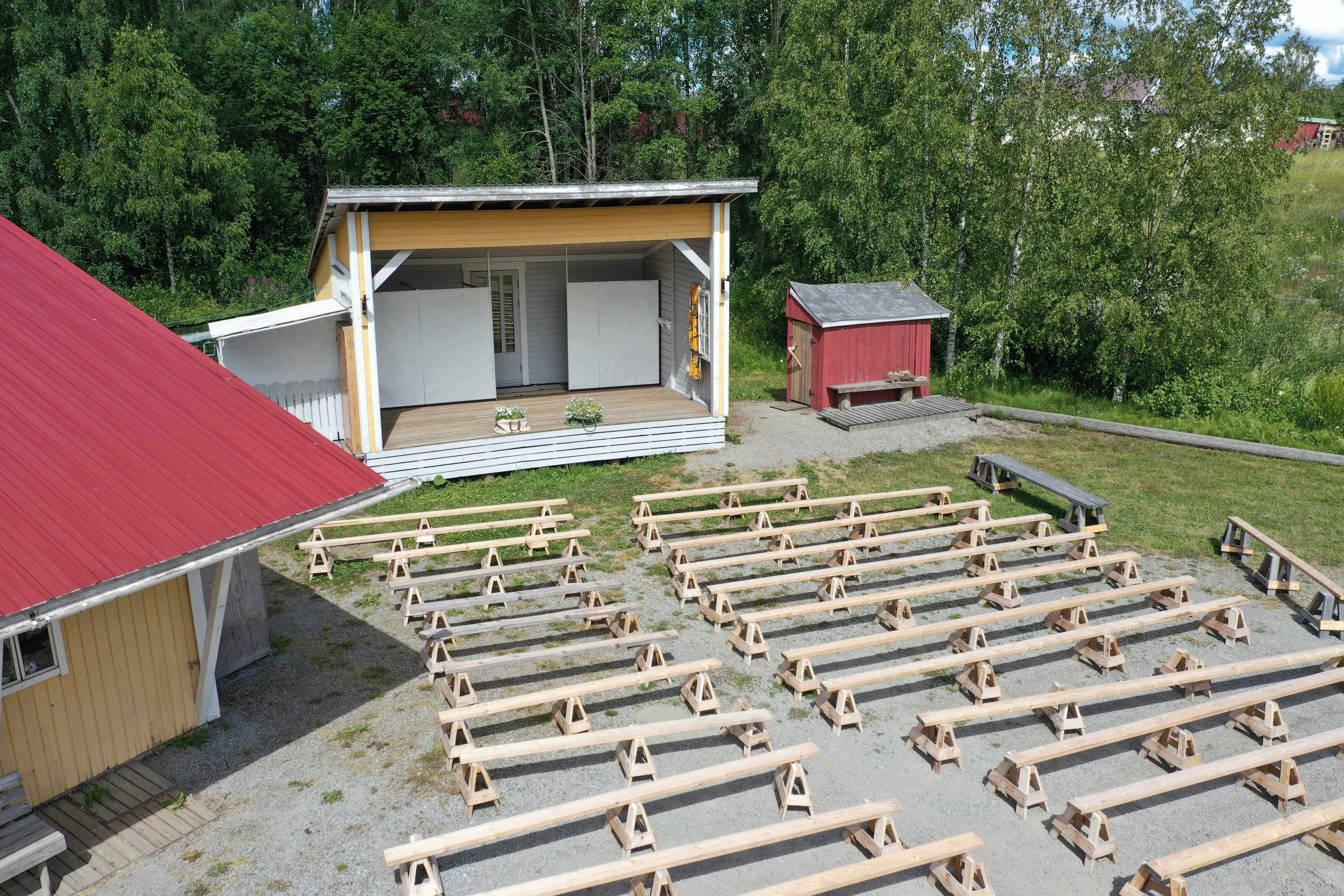 Kelaranta summer theatre in Suodenniemi, Sastamala, Finland